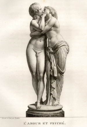 Engraving representing the Ancient Roman sculpture of Amor and Psyche at the Capitoline Museums (Rome, Italy), by French painter and printmaker Pierre Bouillon. Plate from Musée des antiques, dessiné et gravé par P. Bouillon, avec des notices explicatives par J. B. de Saint-Victor, 3 volumes, 1810-1821.